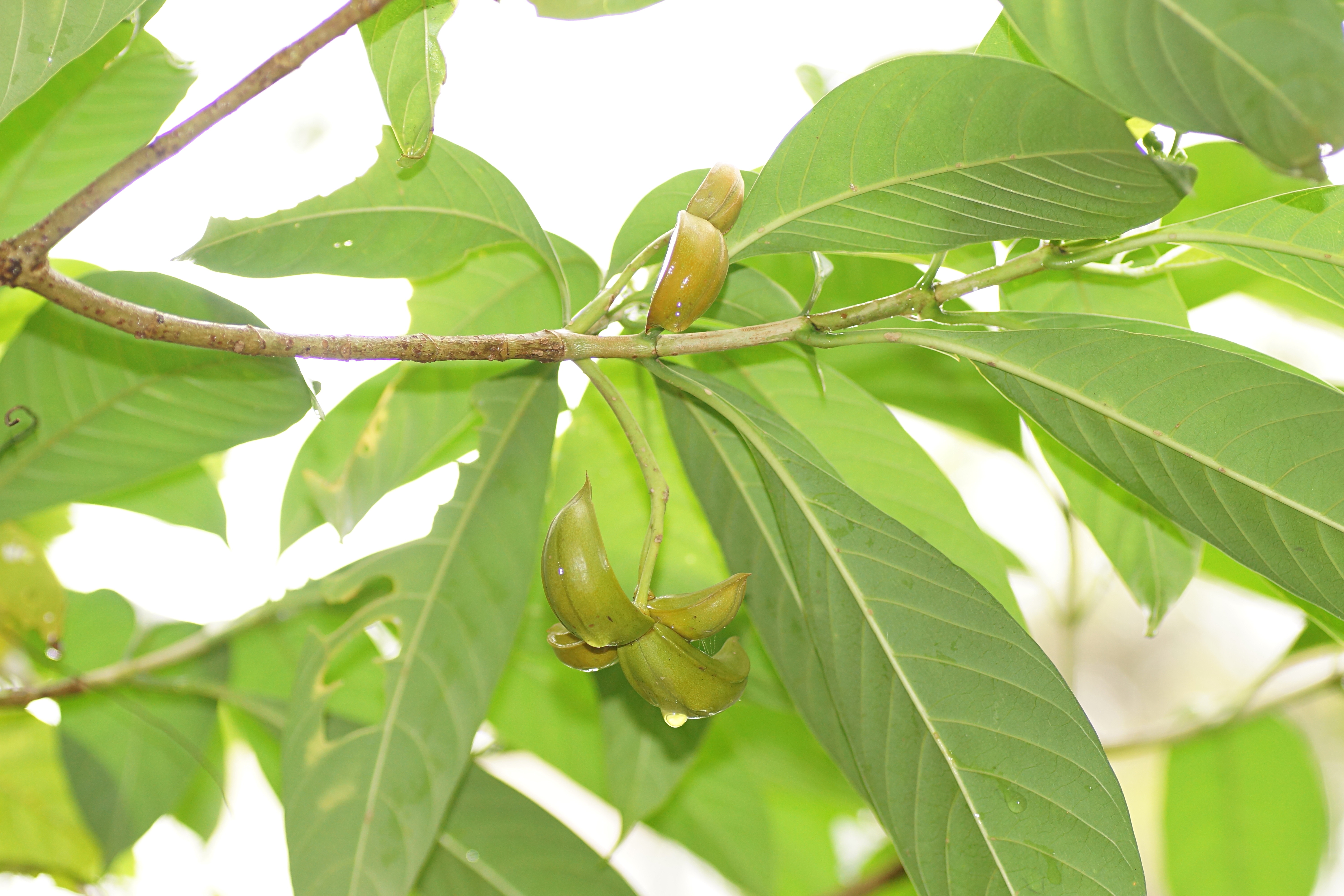 Tabernaemontana orientalis